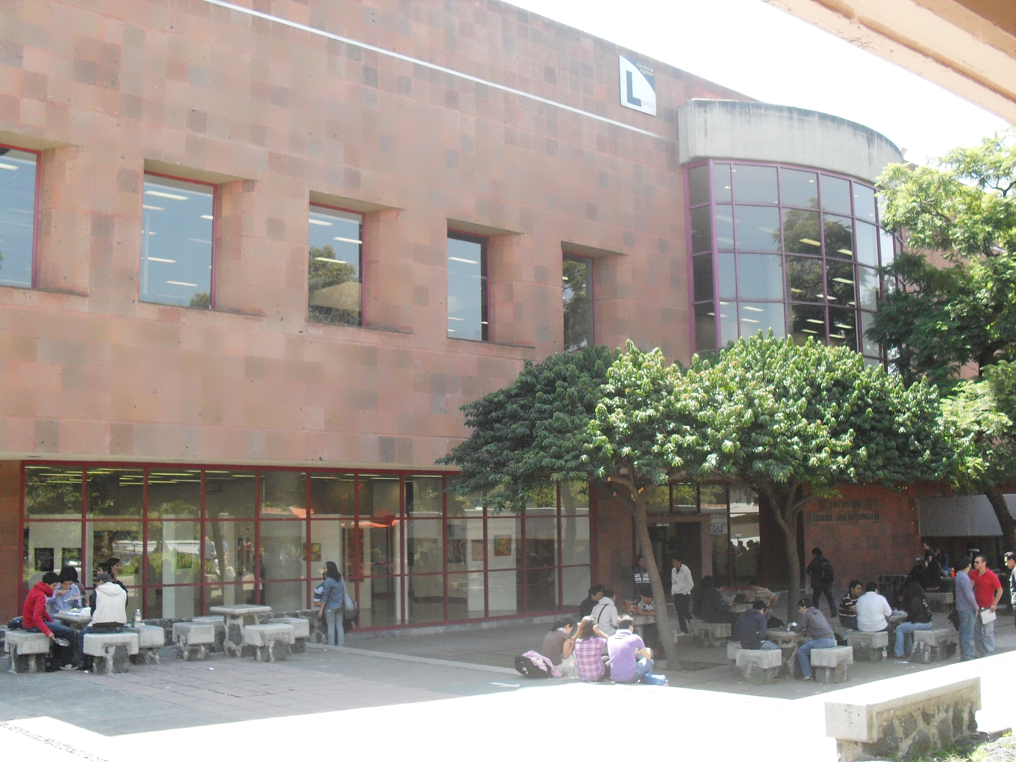 Biblioteca ubicada en el Anexo de la Facultad